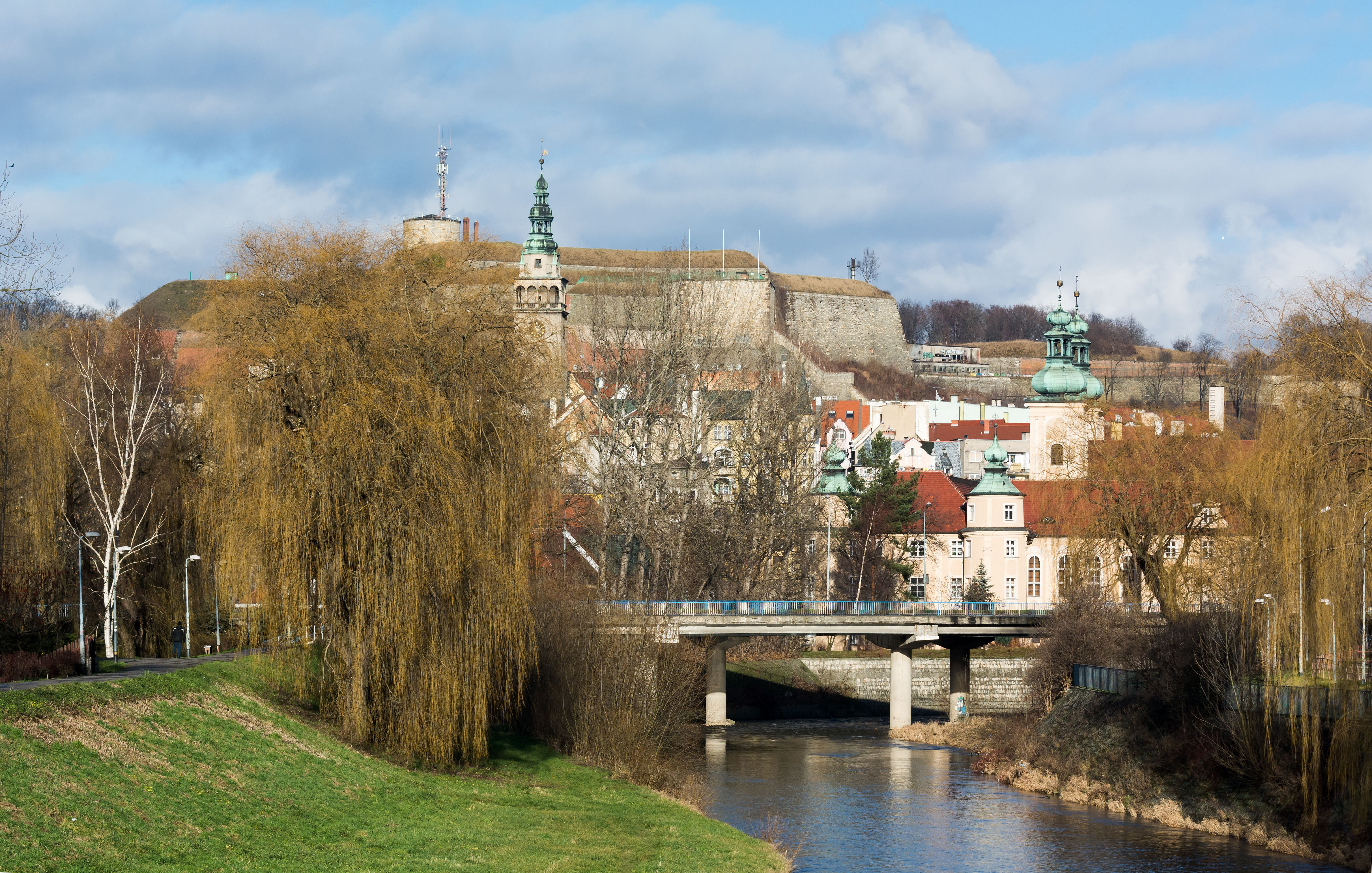 Historic center of Kłodzko